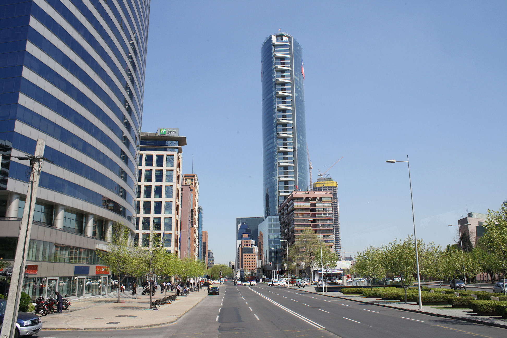 As at 2010, the Titanium Building is the highest structure in the Southern Hemisphere.